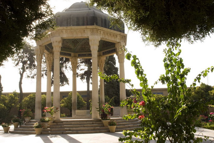 Photo taken by Amir Hussain Zolfaghary